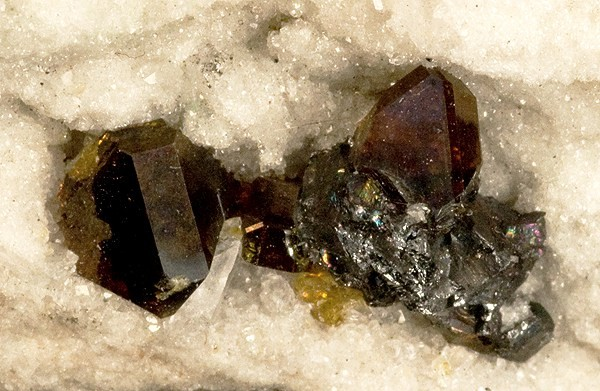 Jordanite, Sphalerite Locality: Lengenbach Quarry, Im Feld (Imfeld; Feld; Fäld), Binn Valley, Wallis (Valais), Switzerland (Locality at ) Size: 9.0 x 3.9 x 3.8 cm. Jordanite is a rare lead, arsenic, antimony sulfosalt and this fine combination specimen is from the Type Locality - the Lengenbach Quarry in Switzerland. A 1.1 cm long aggregate of lustrous, lead-gray, prismatic jordanite crystals is beautifully adjacent to or near to gorgeous, gem, yellow-brown sphalerite crystals to 1.0 cm. These crystals are very attractively lined up on a sculptural matrix of classic, sparkly, sugary, layered, Lengenbach Quarry dolomite. The sphalerites are large for the Lengenbach Quarry. Ex. Mullane Collection. Old material.